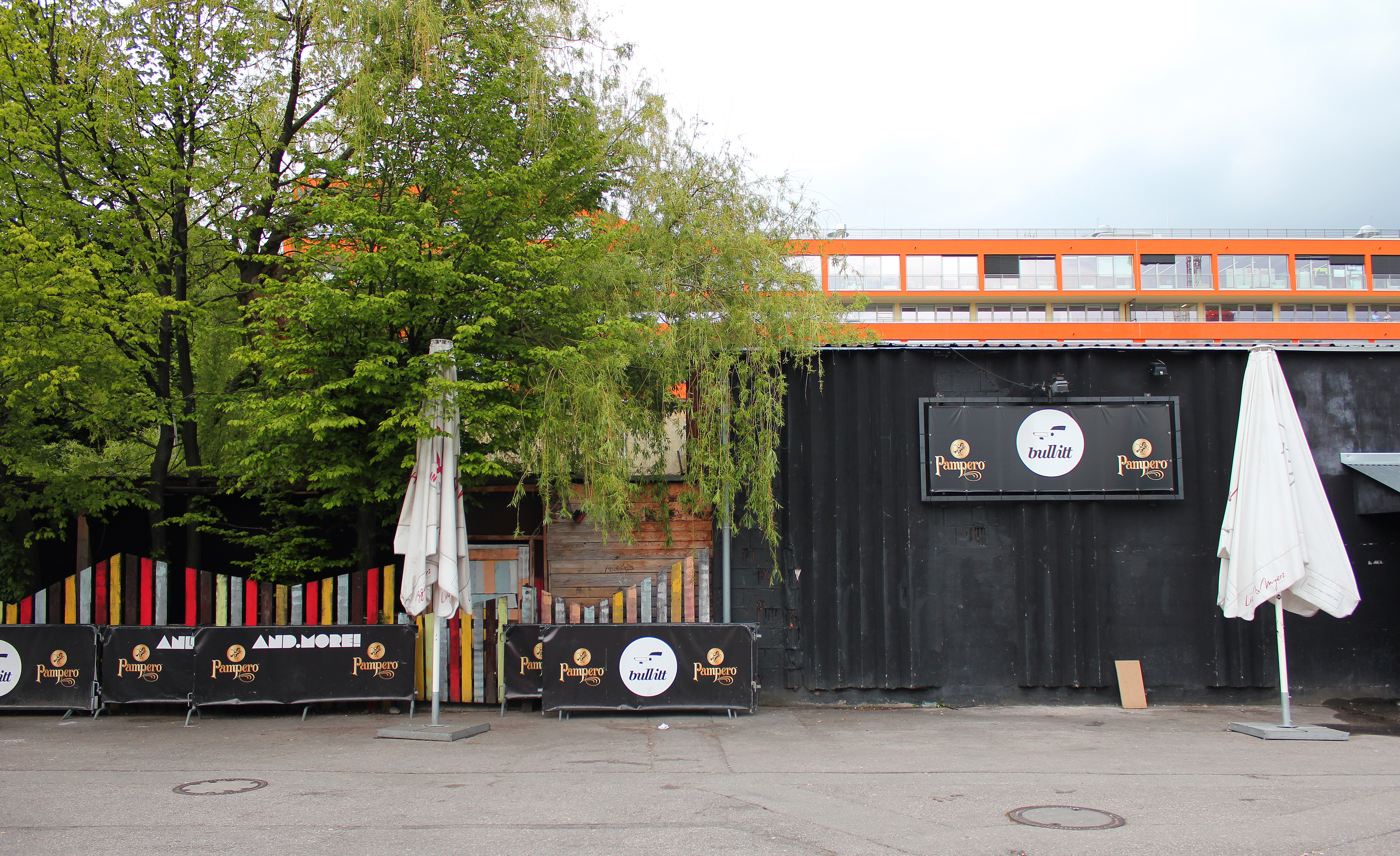 The techno club Bullitt in Munich in 2017.